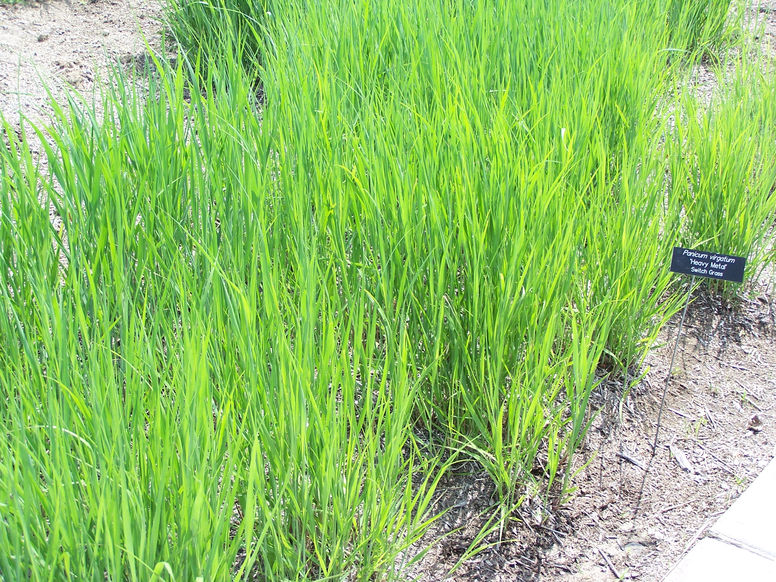 Panicum virgatum 'Heavy Metal' Switch Grass in early summer at Minnesota Landscape Arboretum